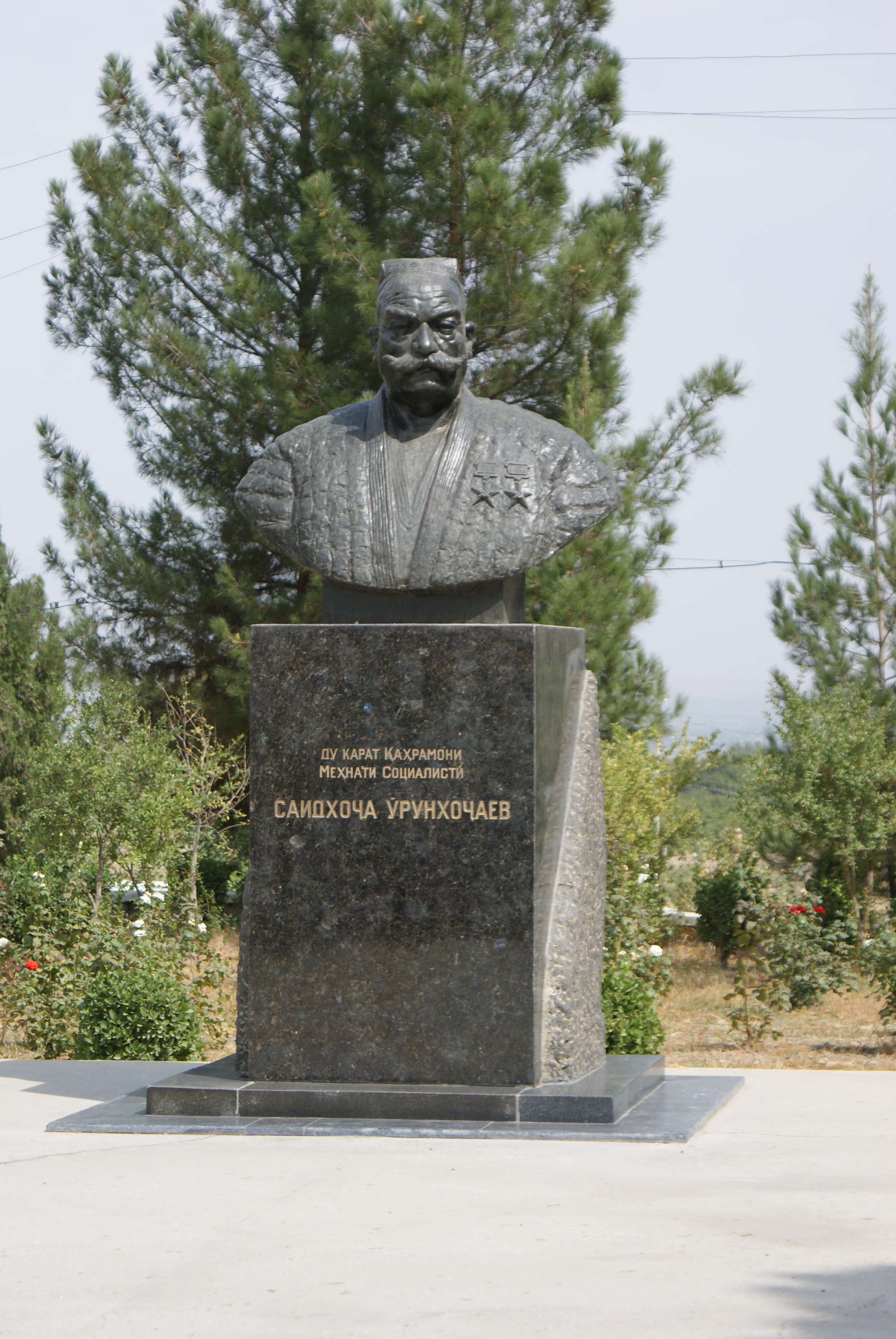 Photo of bust of Saidkhoja Urunhojaev outside the western wing of Arbob palaceТоҷикӣ: Нимпайкараи Саидхоҷа Ӯрунхоҷаев дар ноиҳияи Ғафурови вилояти Суғди Тоҷикистон